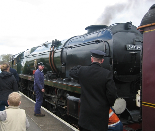 Locomotive No 34016, SR No 21C116 an SR West Country class on Watercress line taken at Alton, Hampshire.